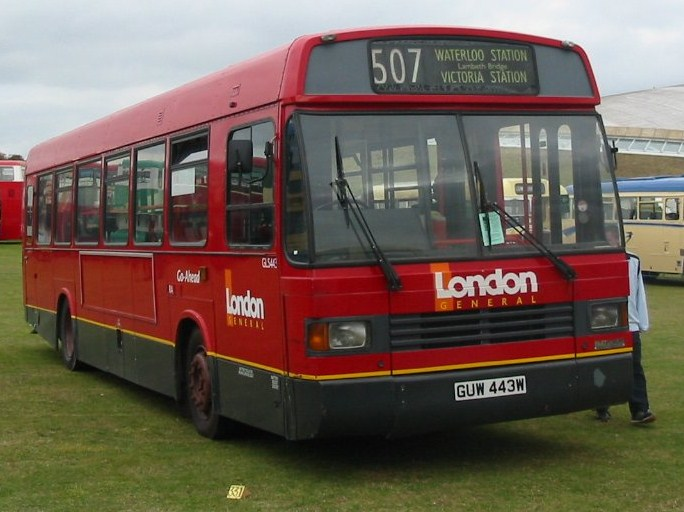 Leyland National Greenway bus, offside view (cropped from original image source)